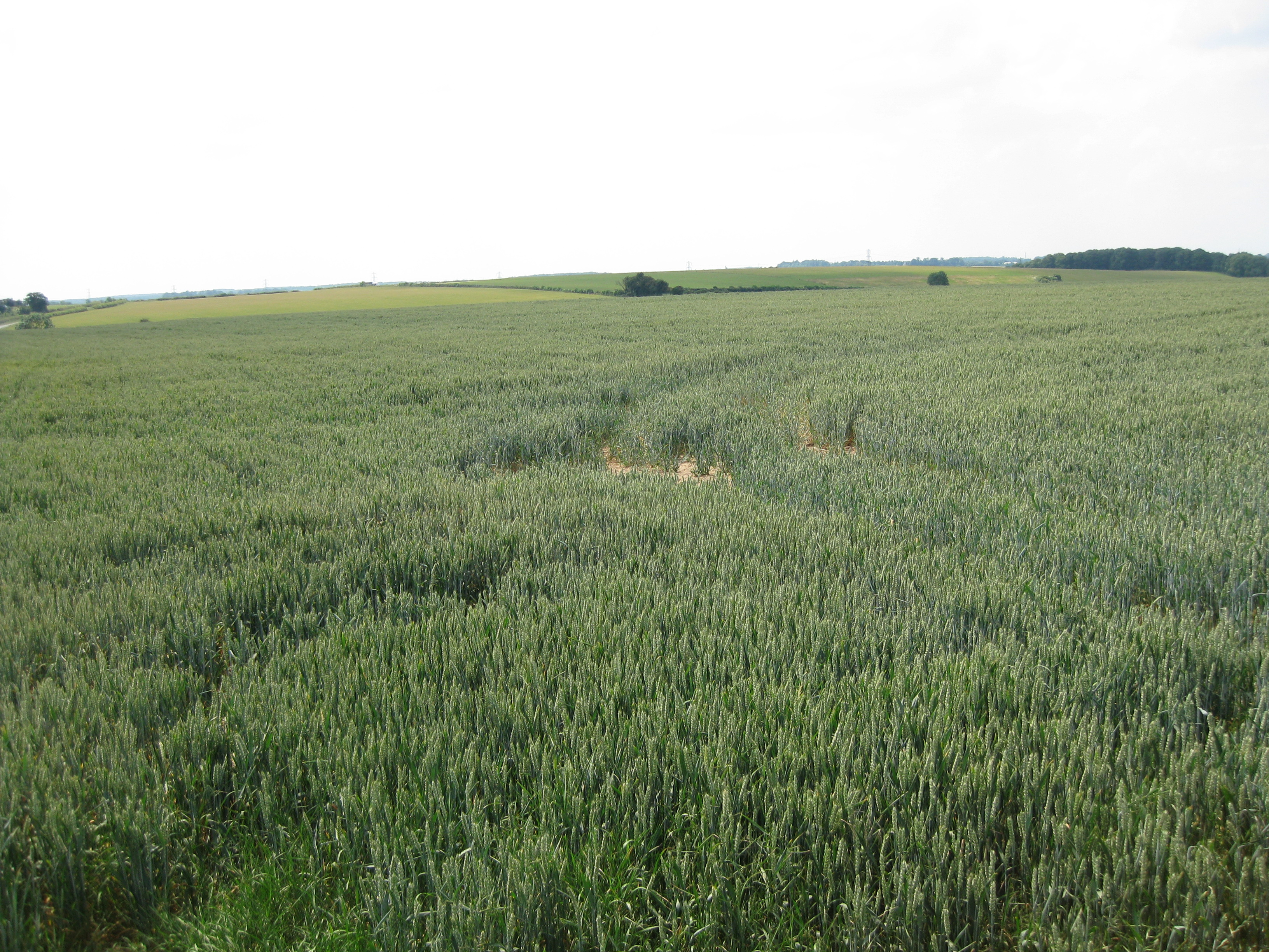 The battlefield of the Battle of Towton, 1461, looking from Dacre's Cross down to Bloody Meadow (lighter coloured field). On the far right is Castle Hill Wood.